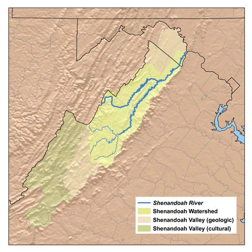 This is a map of the Shenandoah River Watershed and Shenandoah Valley. I, Karl Musser, created it based on USGS data.